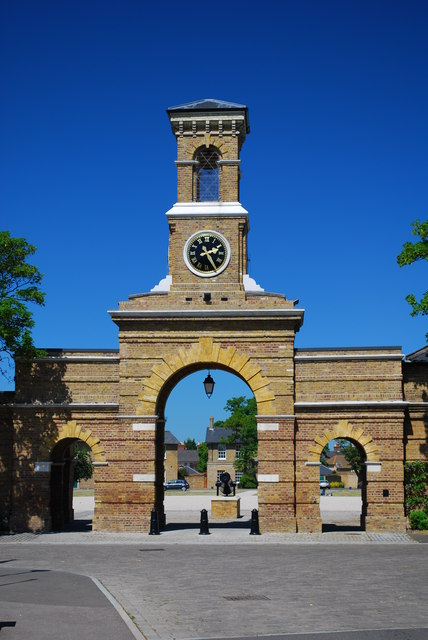 Shoebury clock tower The clock tower at Shoebury Garrison.